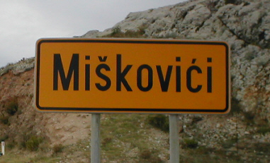 Plate